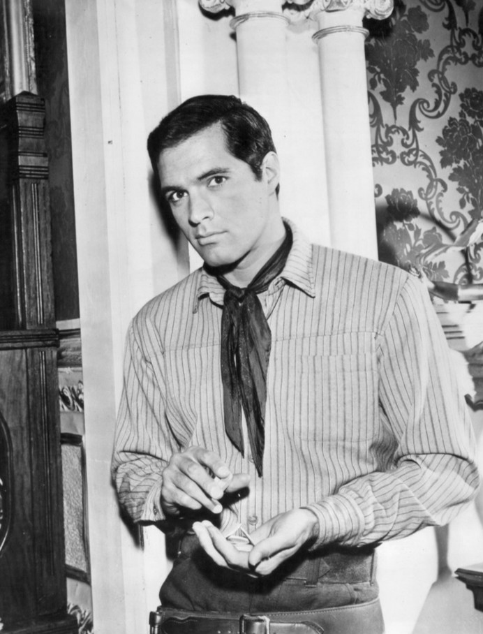 Photo of John Gavin as Harrison Destry from the short-lived television series Destry.